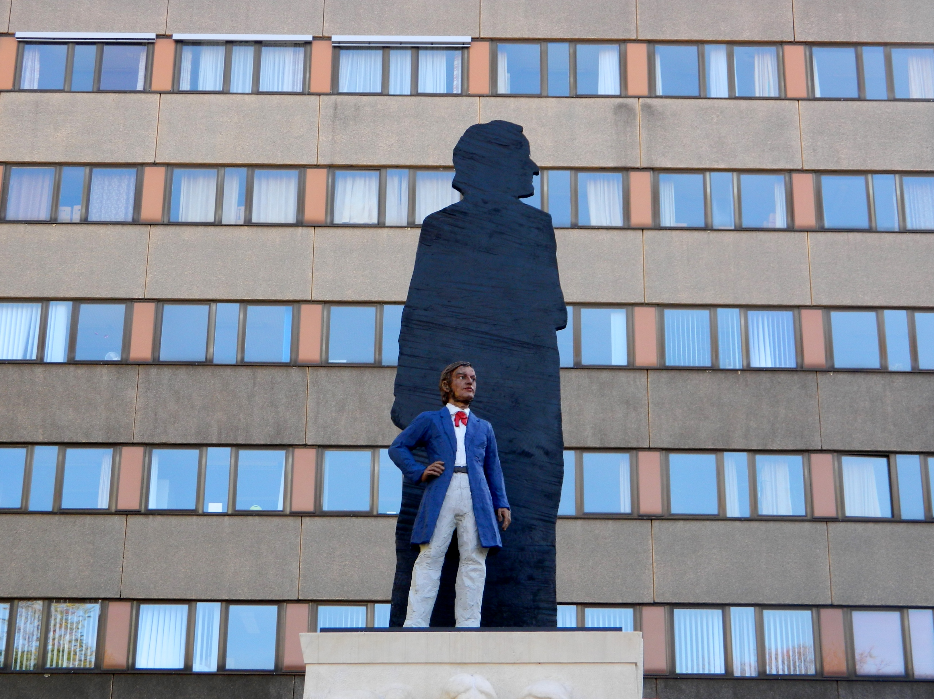 Leipzig - memorial for Richard Wagner